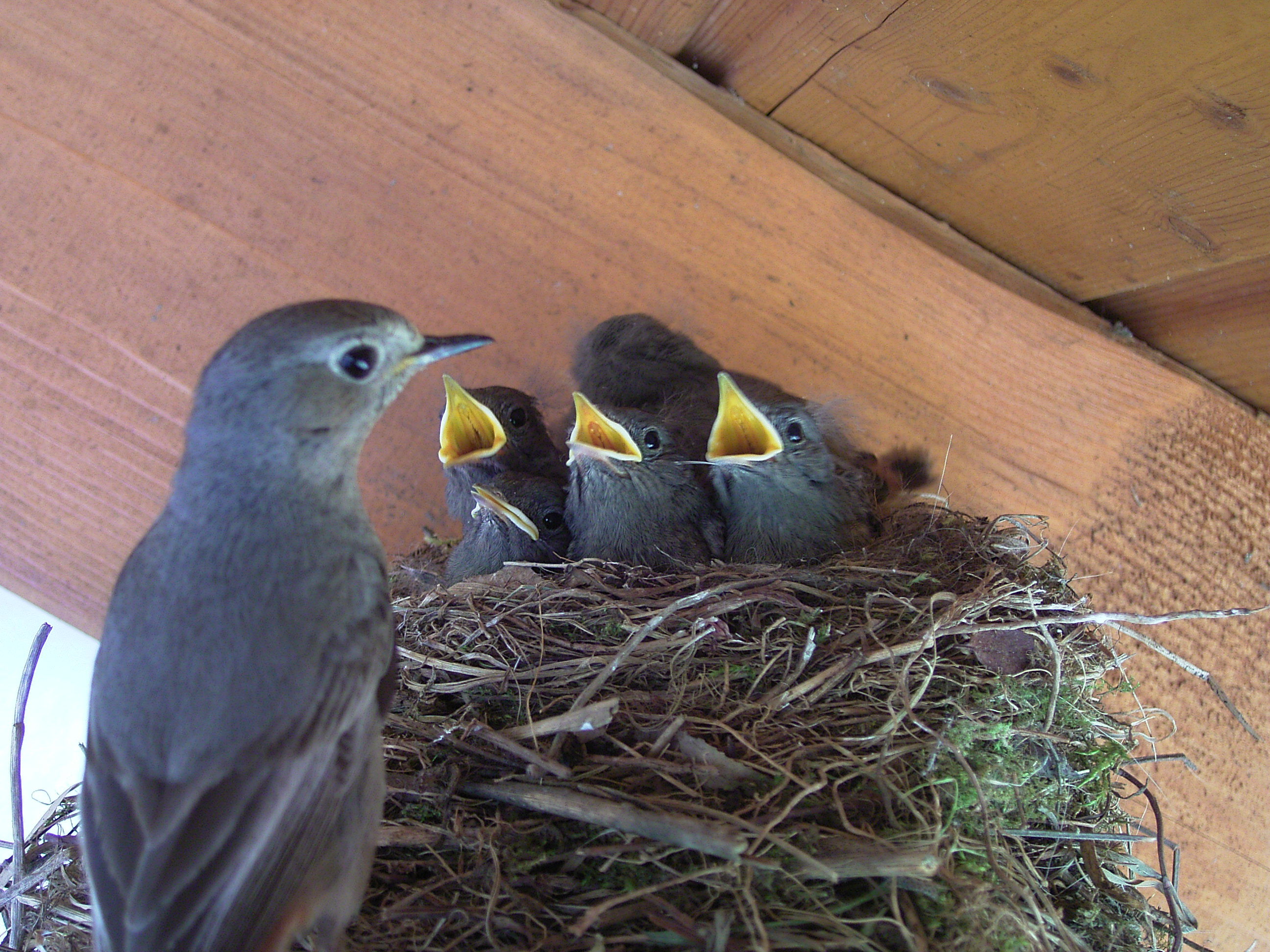 A Parent Bird at the Nest See also overall description below